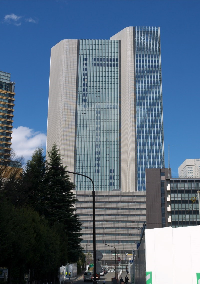 AKASAKA INTERCITY AIR